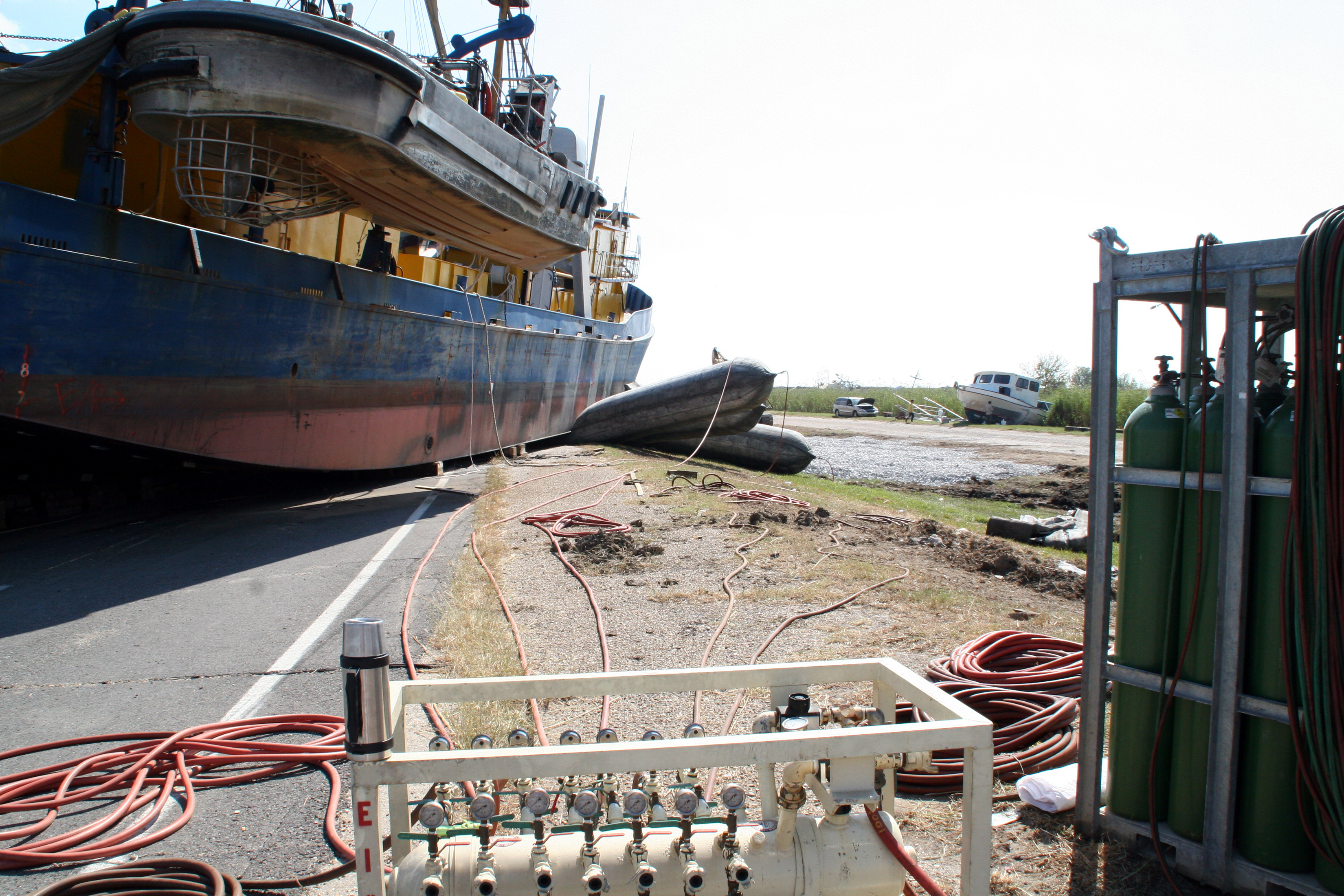 Empire, LA, October 25, 2005 -- Large tube shaped bladders are placed under grounded vessels and inflated in order to remove the boats from the road. Robert Kaufmann/FEMA